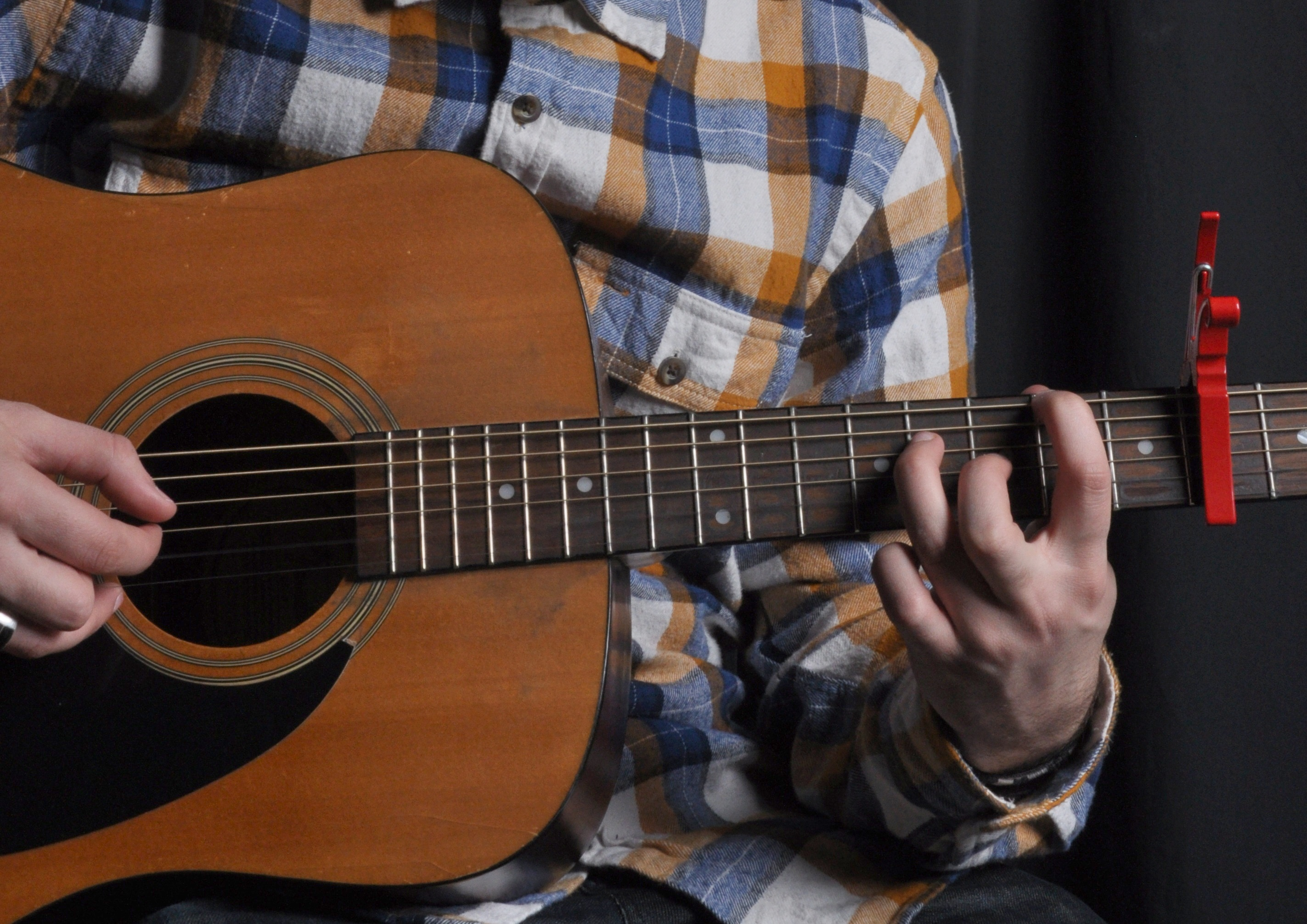 Guitar being played with a trigger-style capo